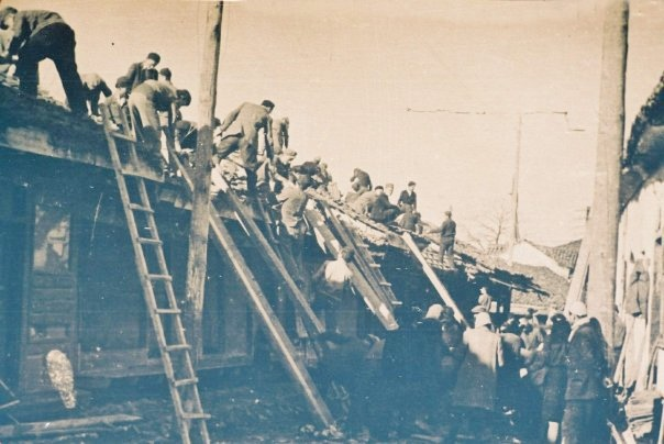 Old Bazaar of Prishtina